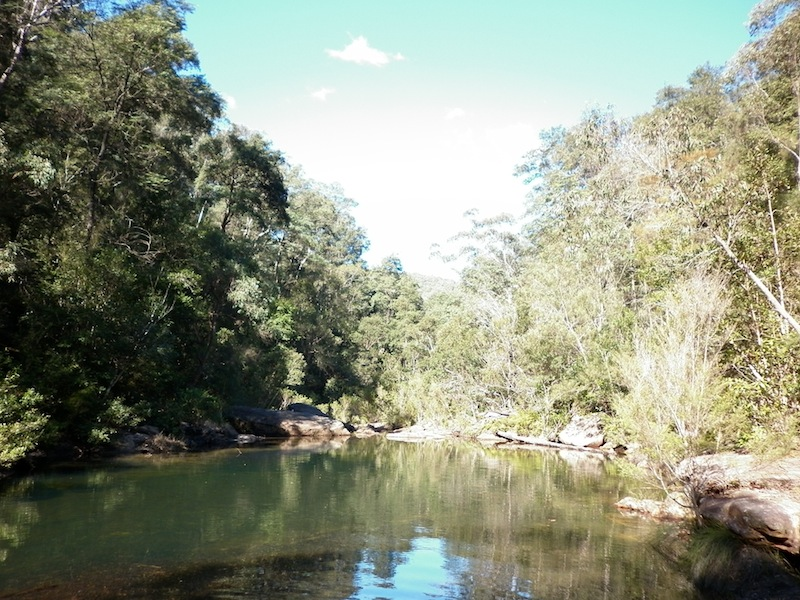 This is a picture of Glenbrook Creek